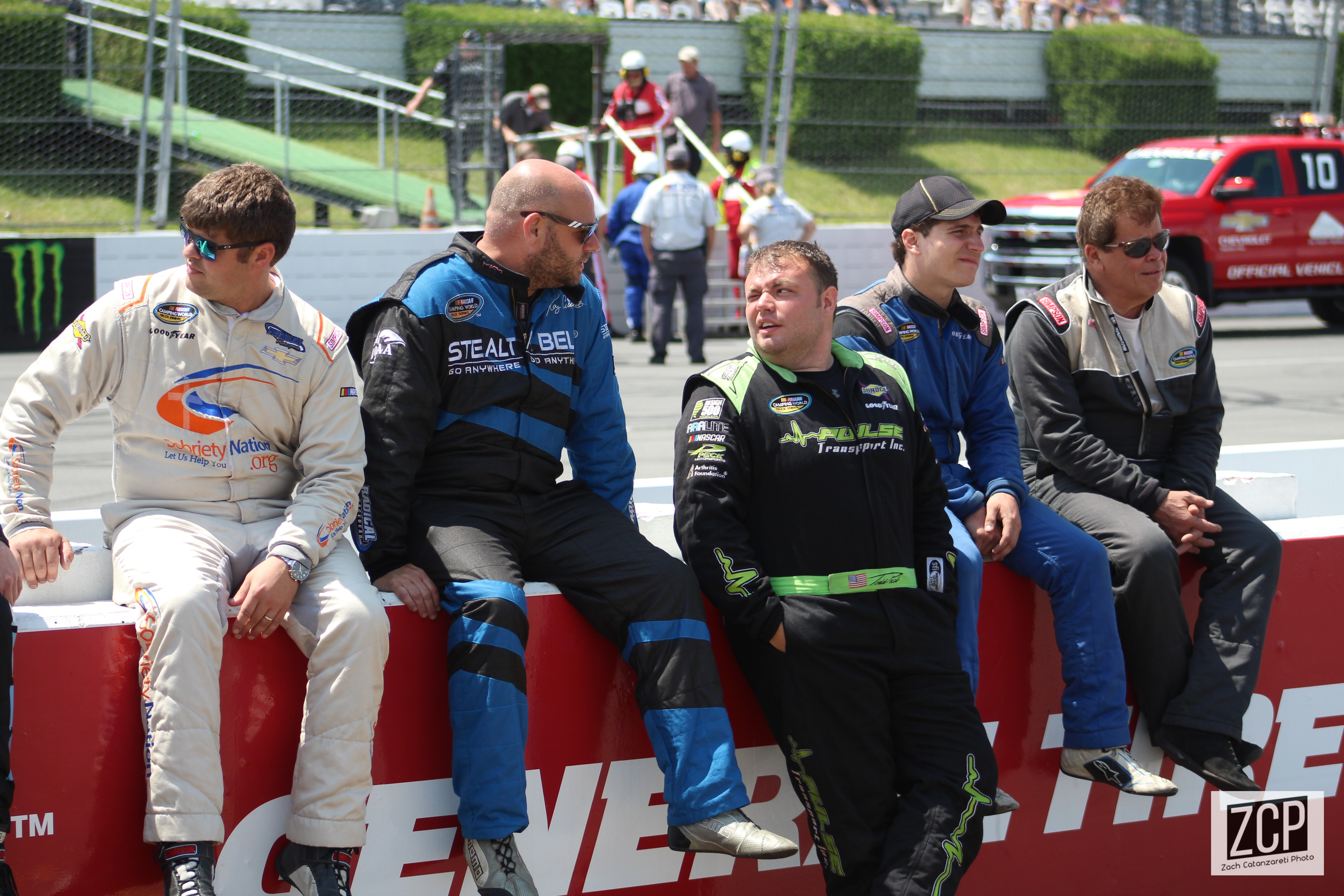 Drivers from the NASCAR Camping World Truck Series at Pocono Raceway in 2018. From left to right: Wendell Chavous, Ray Ciccarelli, Todd Peck, Camden Murphy, Norm Benning.